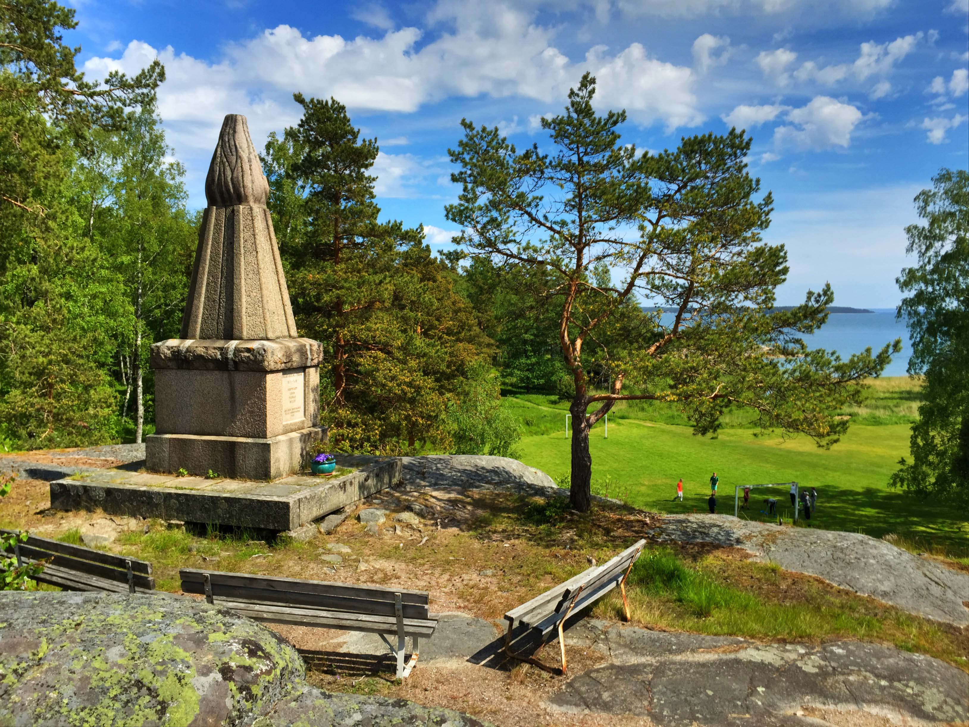 Monument for White Guards of Finland, never taken down after Moscow peace treaty